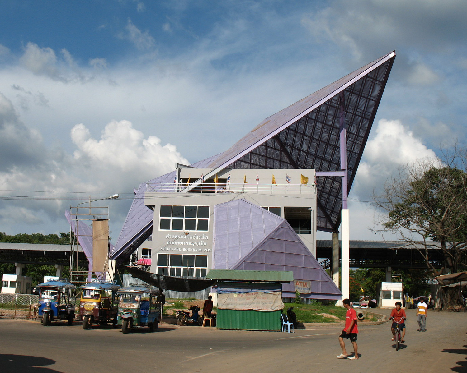 The Chong Mek Pass office in Amphoe Sirindhorn, under construction.